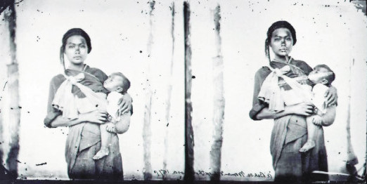 The maybe earliest Taiwan photo (Plains Aborigines of Taiwan) at 1871 shoted by John Thomson.